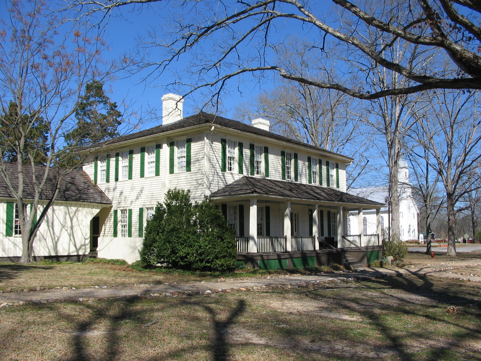 I took this picture of Liberty Hall in Crawfordville, Georgia.